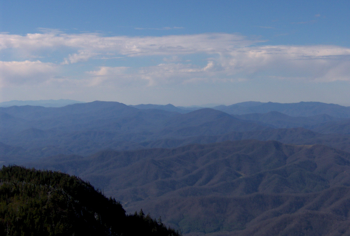 The Unaka Mountains, a subrange of the Appalachian Mountains that spans part of the border between Tennessee and North Carolina in the southeastern United States. This view is from Roan High Bluff, looking southwest.